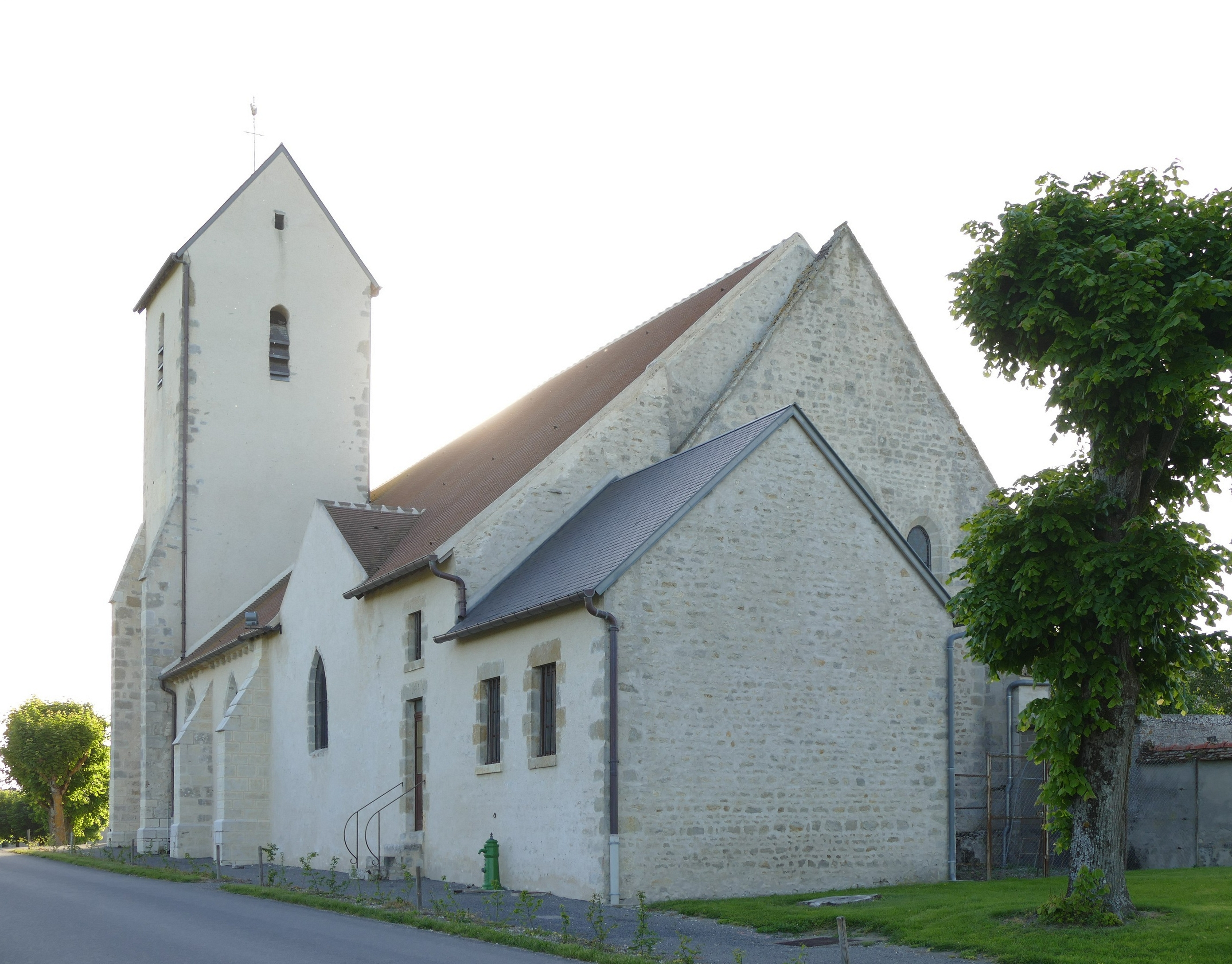 Saint-Peter's church in Attray (Loiret, Centre-Val de Loire, France).